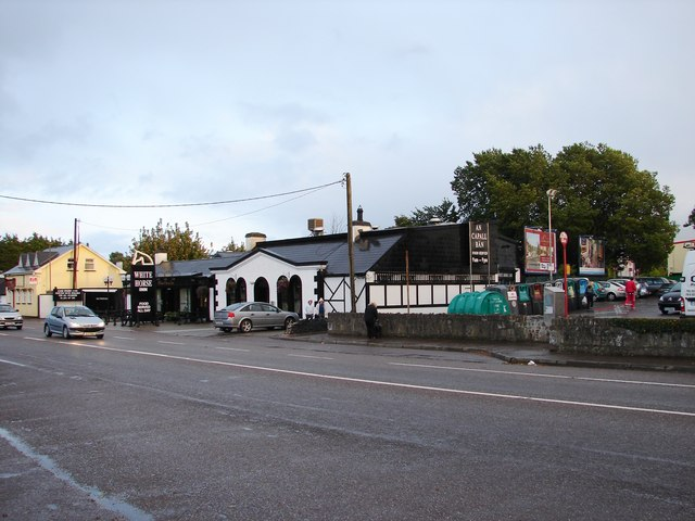 The White Horse, Ballincollig Or, An Capall Bán.